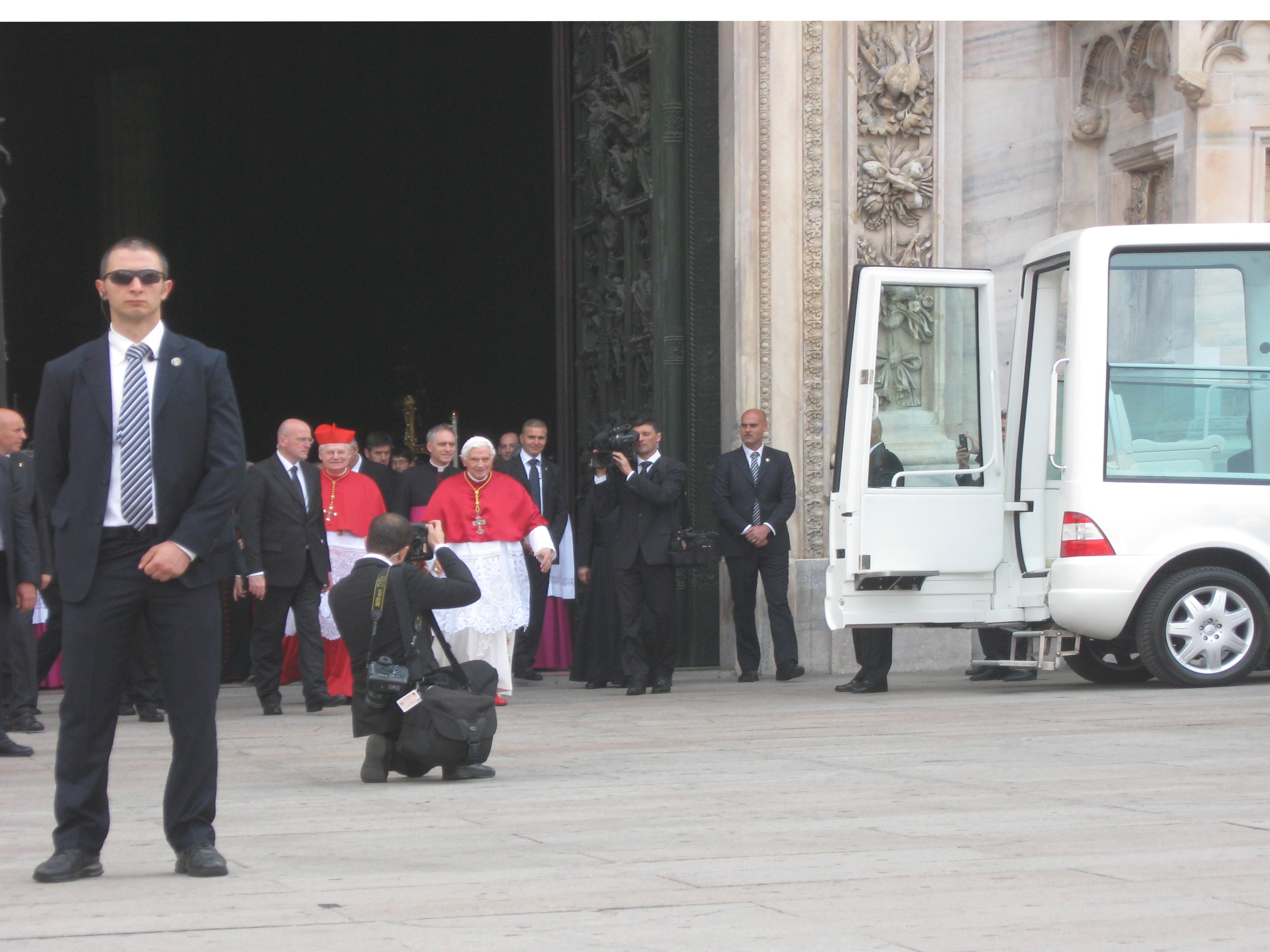 Pope Benedict XVI with Cardinal Scola exiting from Milan Cathedral